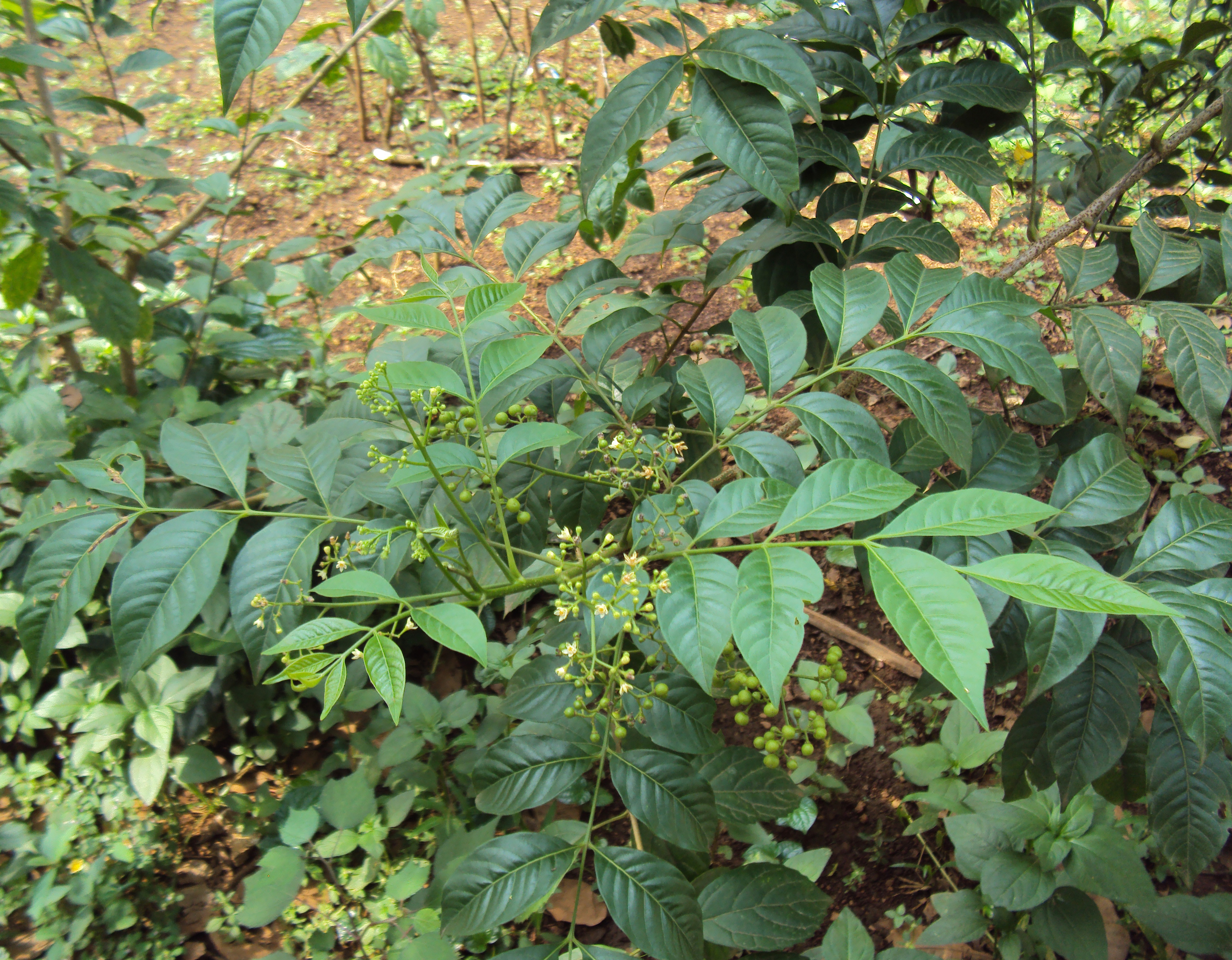 Cipadessa baccifera - Melia baccifera